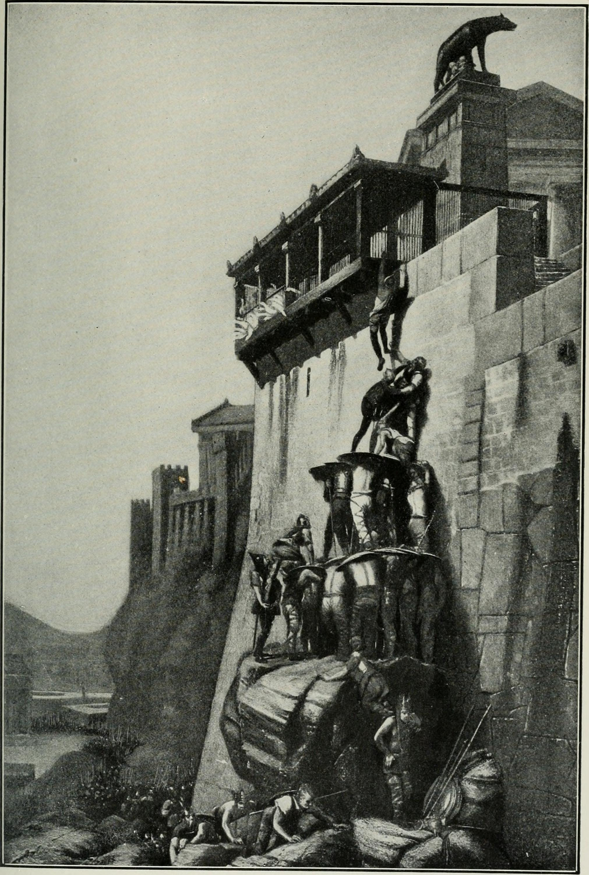 THE GEESE SAVE ROME Title: The story of the greatest nations, from the dawn of history to the twentieth century : a comprehensive history, founded upon the leading authorities, including a complete chronology of the world, and a pronouncing vocabulary of each nation Year: 1900 (1900s) Authors: Ellis, Edward Sylvester, 1840-1916 Horne, Charles F. (Charles Francis), 1870-1942 Subjects: World history Publisher: New York : F.R. Niglutsch Text Appearing Before Image: i Text Appearing After Image: THE GEESE SAVE ROME Rome—Chronology 489 389—Rome gradually rebuilt amid great distress and wars with neighboringstates. 367—Passage of the Licinian laws. 360—The Gauls defeated inItaly. 365-342—War with the Etruscans, ended by a truce; war with theLatins; league renewed. 343-340—First Samnite war, indecisive. 341—■Mutiny in the army in Campania and rise of the commons in Rome;peace restored by concessions and the general abolition of debts caused bythe Gaulish invasion. 339—-The Publilian law passed, equalizing Plebeianswith the Patricians in political rights. 326 et seq.—The second Samnitewar. 311—War with Etruria. 309-—-Victories of O. Fabius Maximus; theEtrurians and Umbrians submitted. 312-308—Appius Claudius Calcus, cen-sor, favored the lower classes; with the public money made a road from Rometo Capua, termed the Appian Way, and erected the first aqueduct. 304-302—Conquest of the yEquians, Marsians, etc. 300—Third Samnite war.294-290—The Samnites